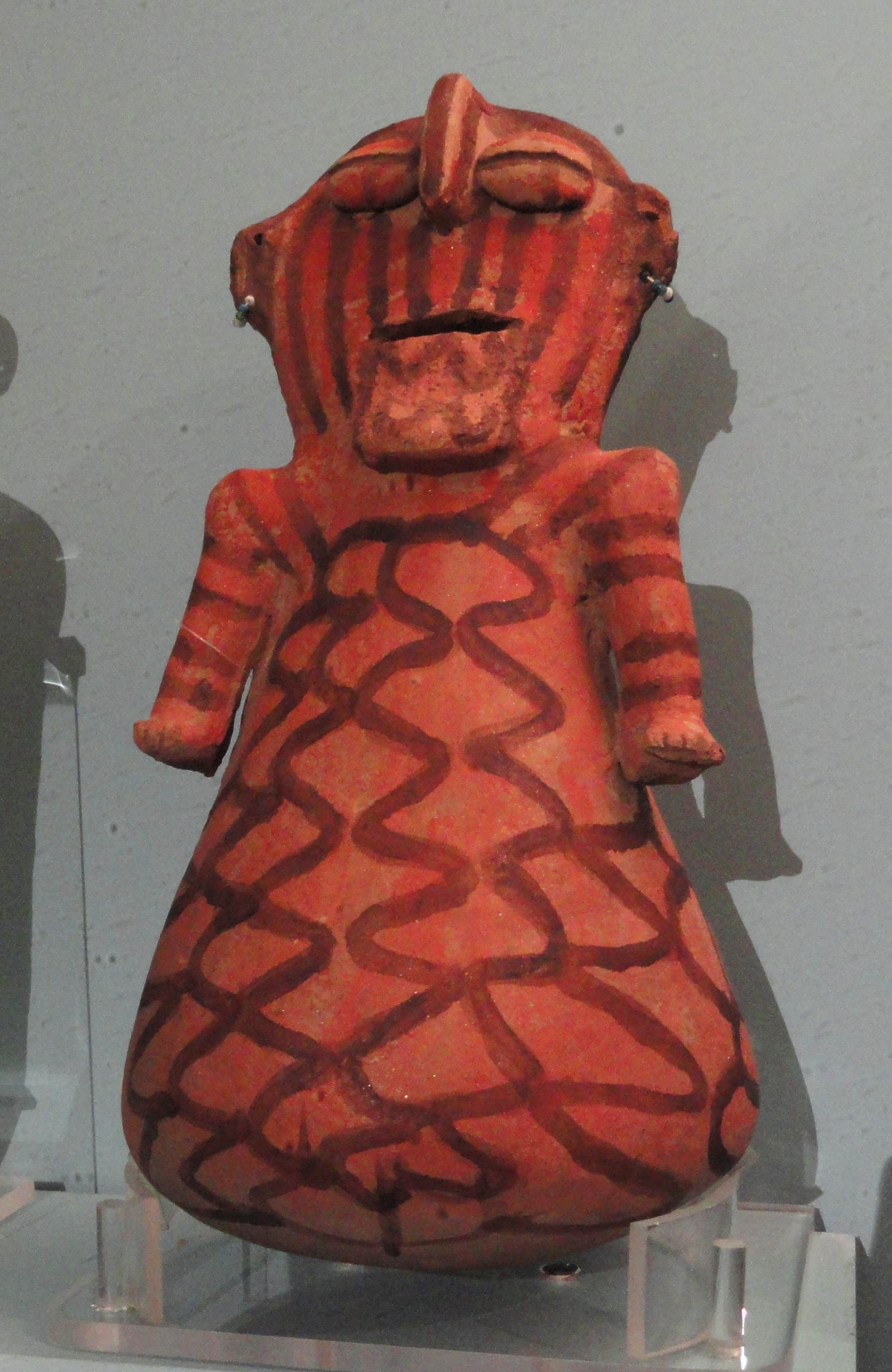 Doll, Mohave pottery. Acquired in 1912. Exhibit from the Native American Collection, Peabody Museum, Harvard University, Cambridge, Massachusetts, USA. Photography was permitted without restriction; exhibit is old enough so that it is in the public domain.